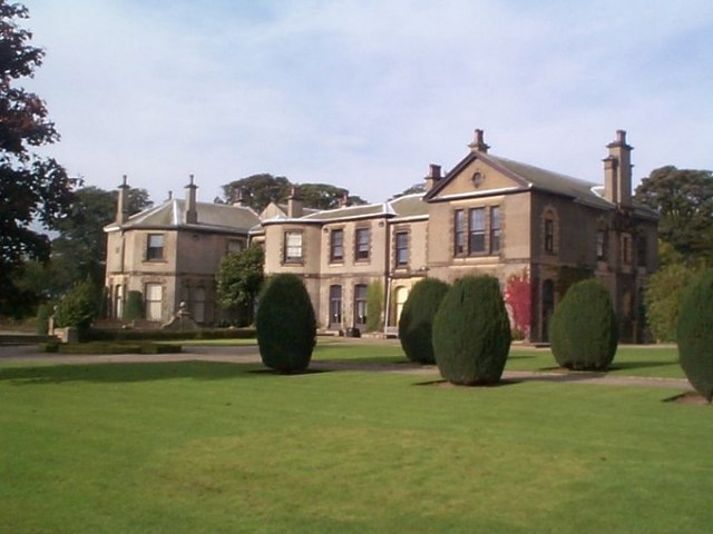 Another view of Lotherton Hall This hall was given to Leeds by the Gascoine family in 1968. It is now an art museum administered by Leeds city council. The gift included a beautiful garden, parkland, art collection and an endowment fund.